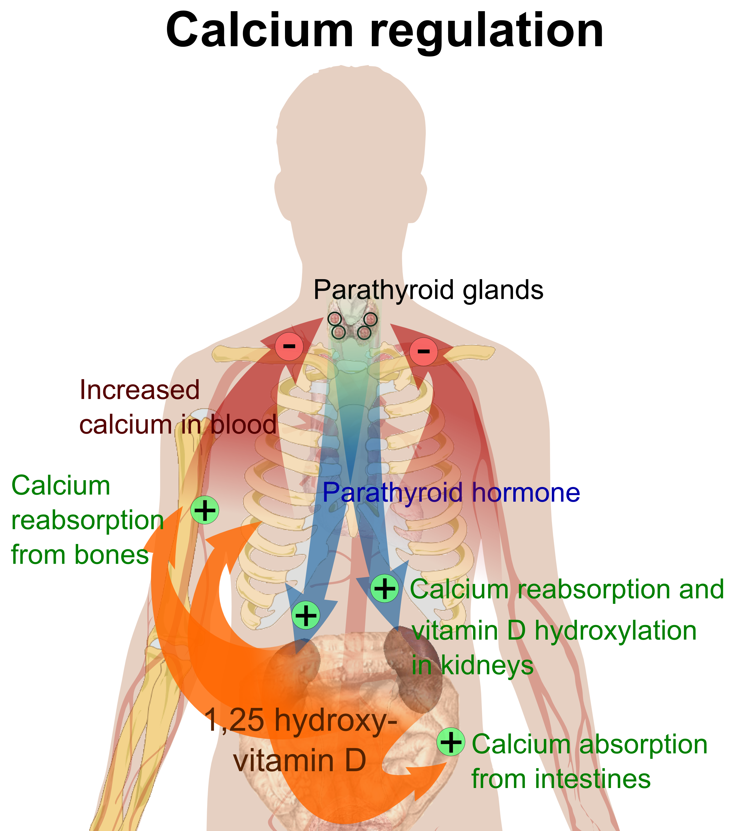 Overview of calcium regulation (See Wikipedia:Calcium in biology). To discuss image, please see Talk:Human body diagrams References Page 1094 (The Parathyroid Glands and Vitamin D) in: Walter F., PhD. Boron (2003) Medical Physiology: A Cellular And Molecular Approaoch, Elsevier/Saunders, pp. 1,300 ISBN: 1-4160-2328-3.